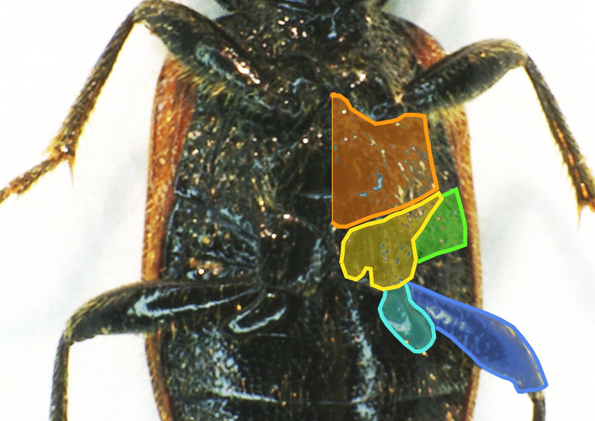 Underside of Panagaeus cruxmajor, right side partly coloured orange: Metasternum green: Abdominalsternit 1 blue: Metafemur türkis: Trochanter yellow: Metacoxa